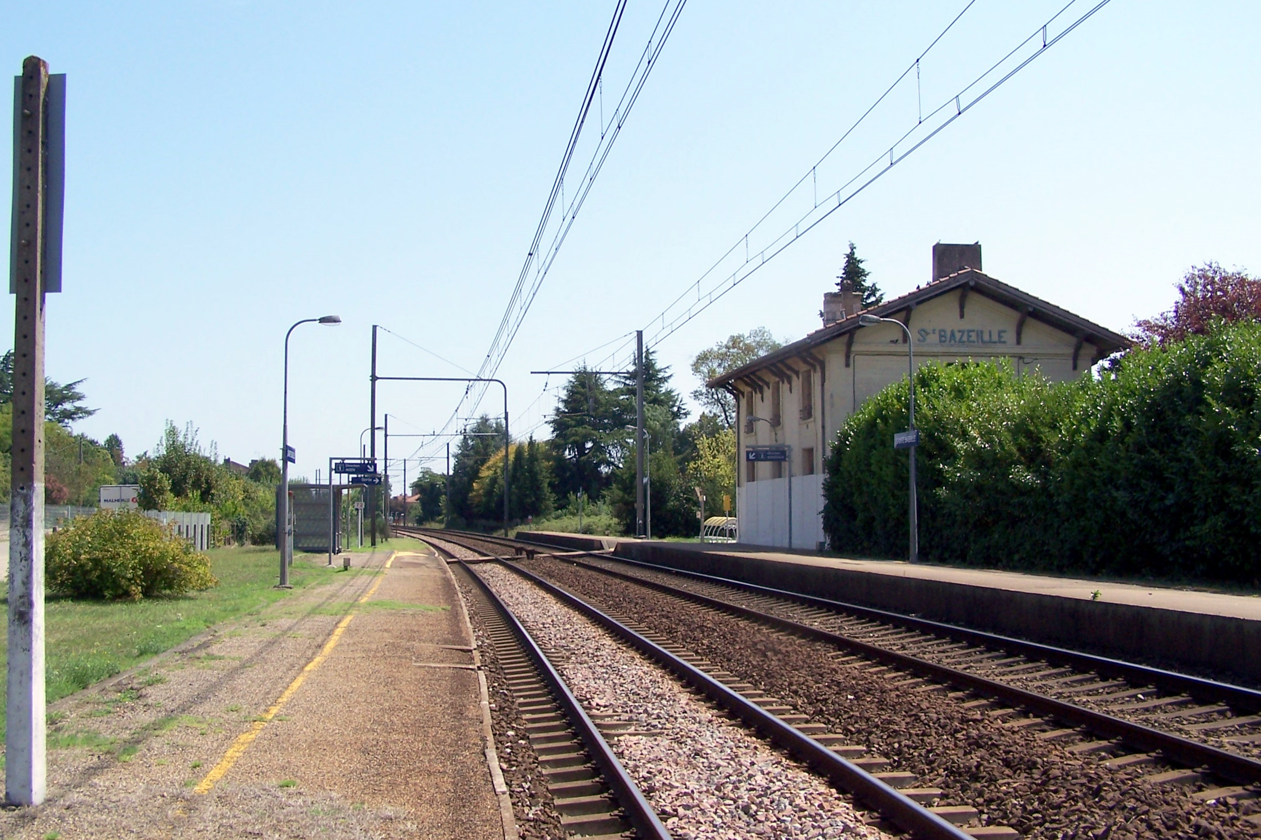 Train station of Sainte-Bazeille (Lot-et-Garonne, France)